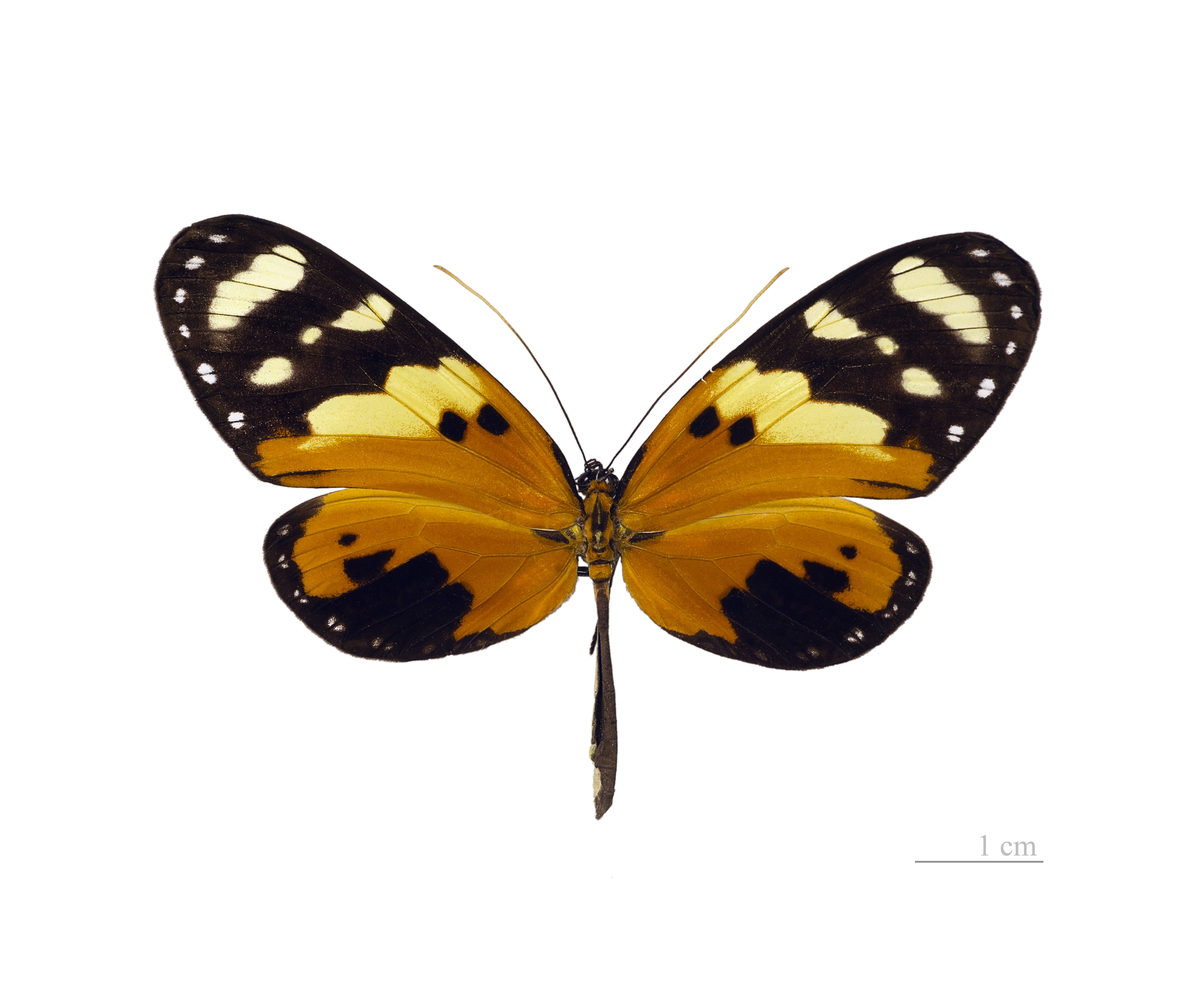 ♀ - Dorsal side Locality: Santarém Pará, Brazil